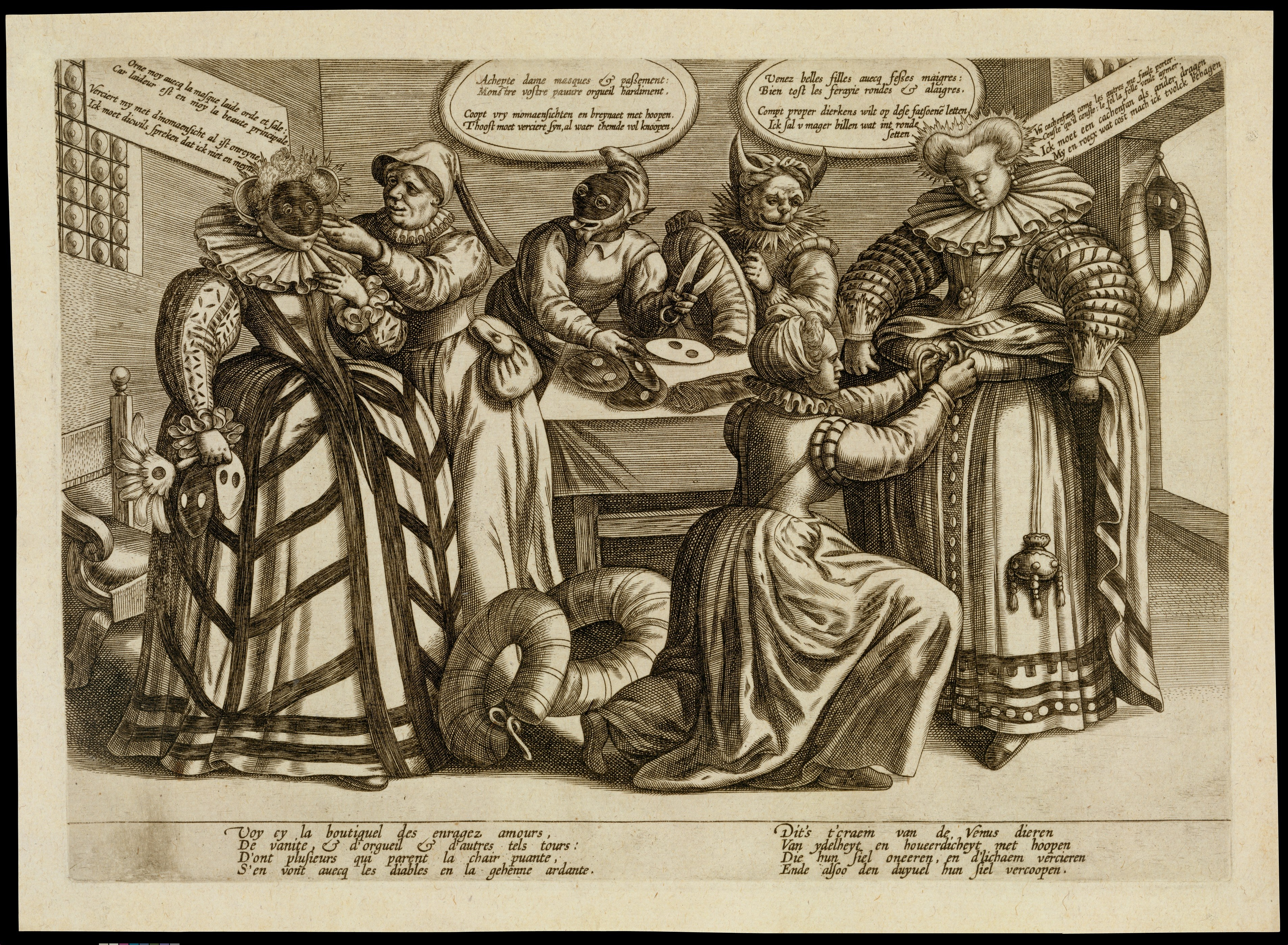 Dutch satire on women's fashion, showing masks (visards or vzards) and "bustles" (padded rolls or French farthingales).